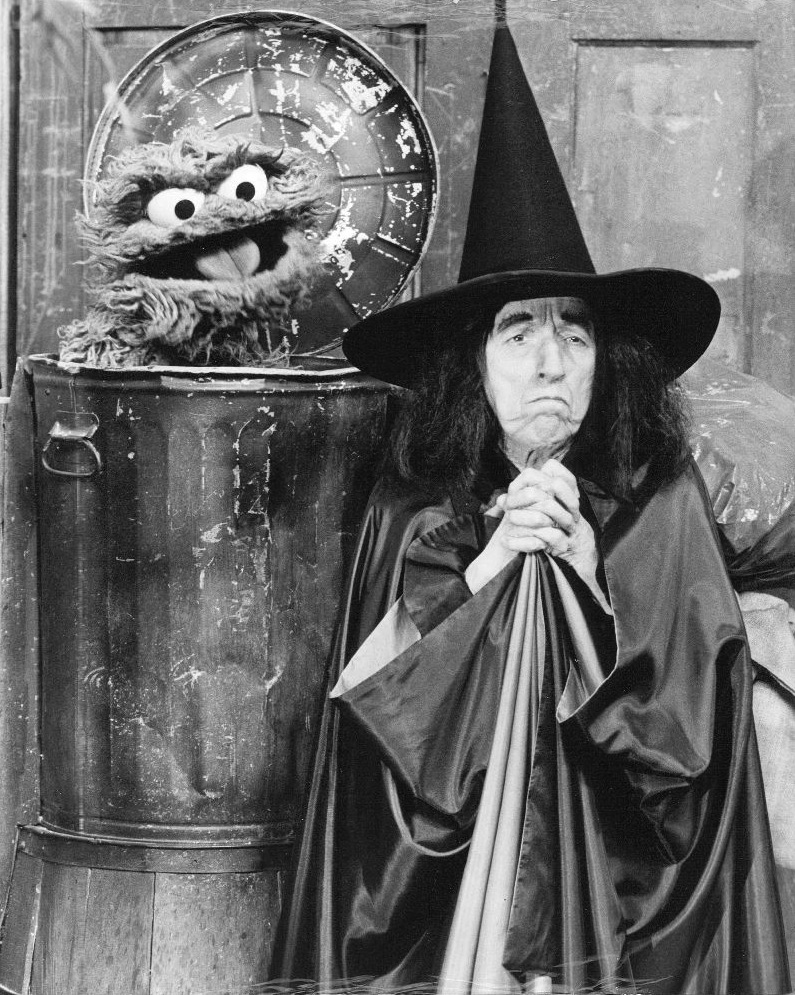 Publicity photo of American actress, Margaret Hamilton and American Muppet, Oscar the Grouch promoting the February 10, 1976 premiere of Episode #0847 of Sesame Street.